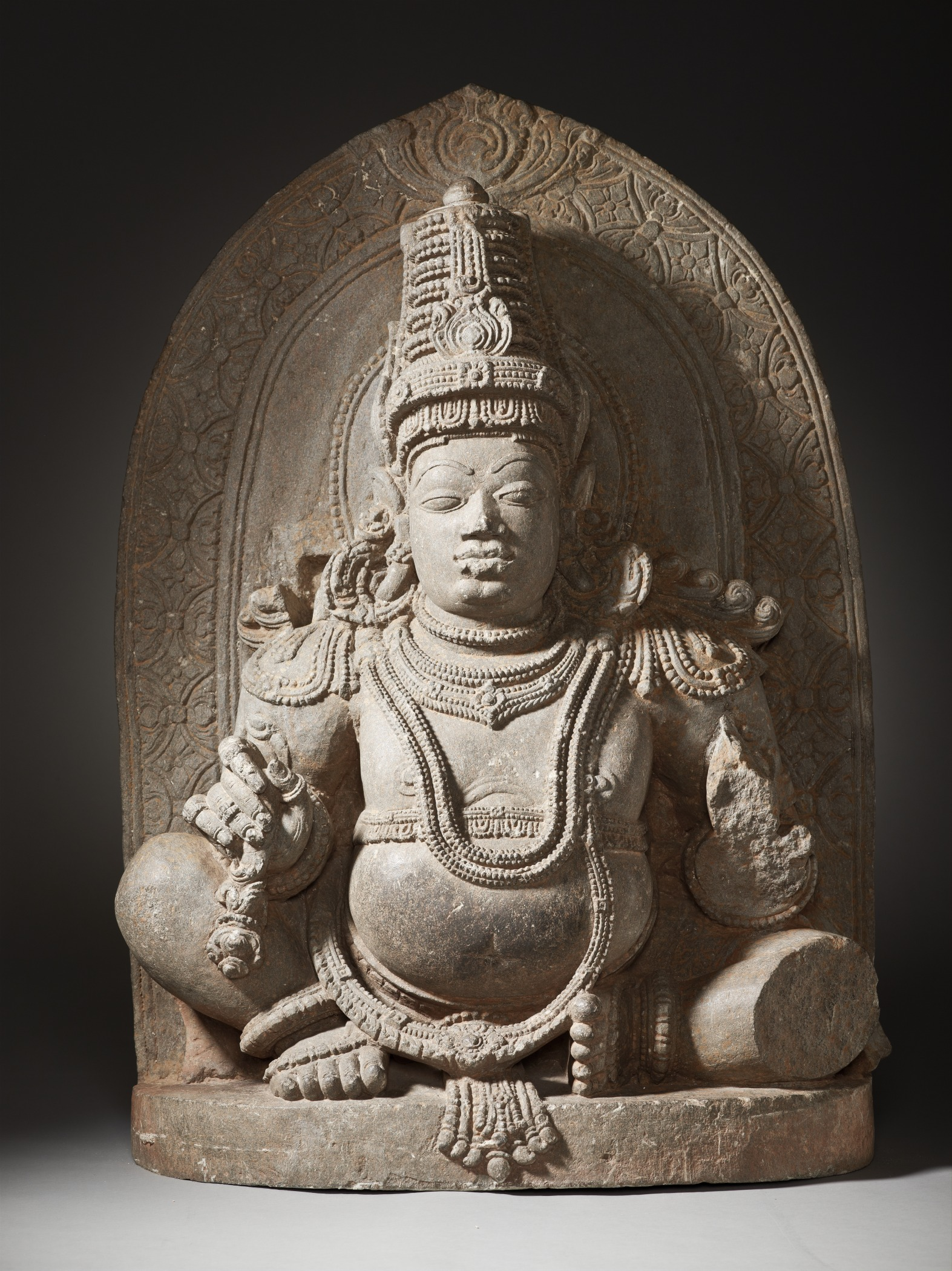 India, Karnataka, Varuna, circa 1050 Sculpture Magnesian schist From the Nasli and Alice Heeramaneck Collection, Museum Associates Purchase (M.69.13.8) South and Southeast Asian Art